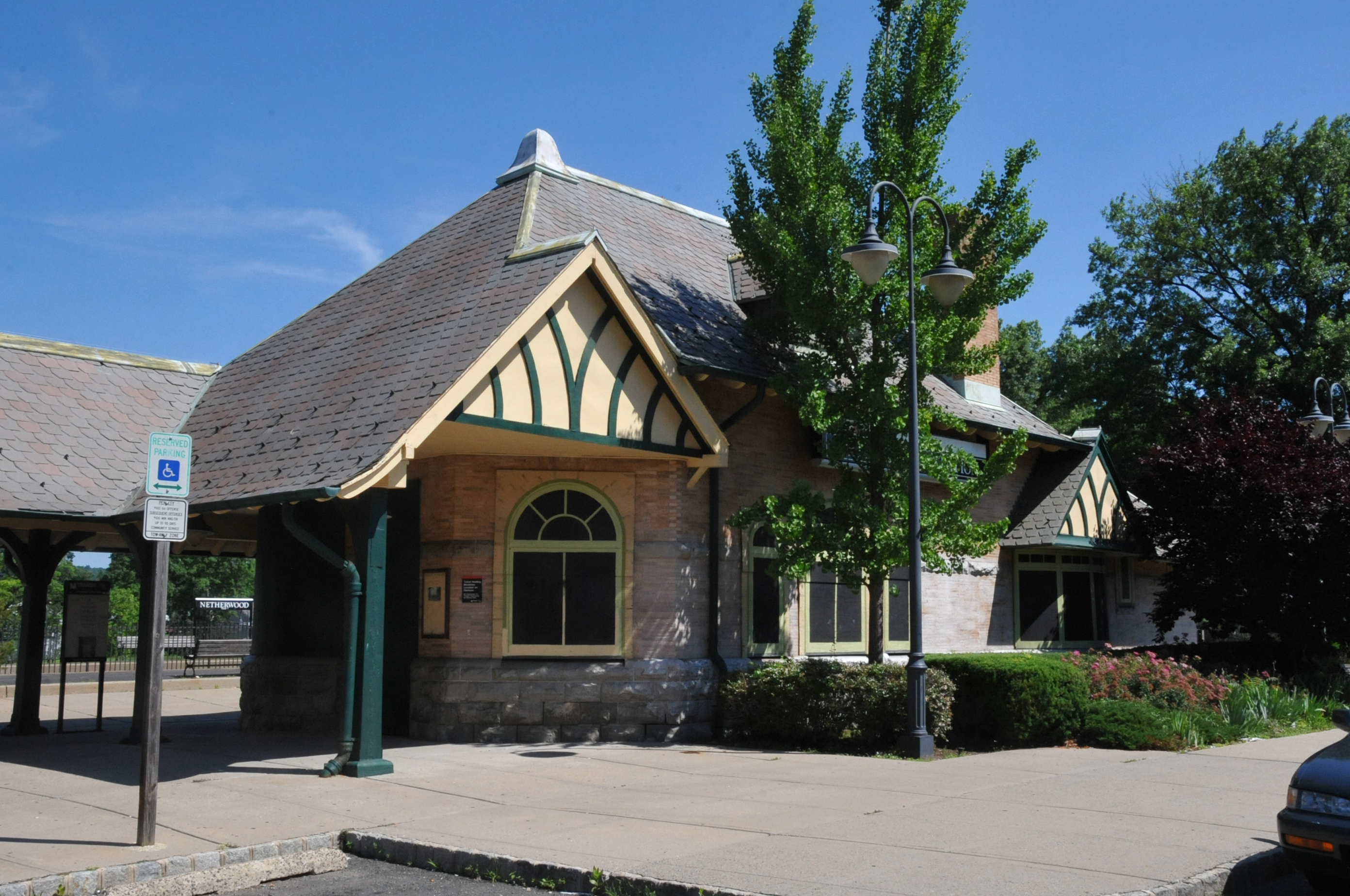 STATION WAS ORIGINALLY BUILT BY THE CENTRAL RAILROAD OF NEW JERSEY IN 1894. AS WITH THE REST OF THE CNJ, THE STATION WAS SUBSIDIZED BY THE NEW JERSEY DEPARTMENT OF TRANSPORTATION IN 1964 AND ABSORBED INTO CONRAIL IN 1976. THE STATION IS ONE OF THE TWO SURVIVING CNJ STATIONS IN PLAINFIELD